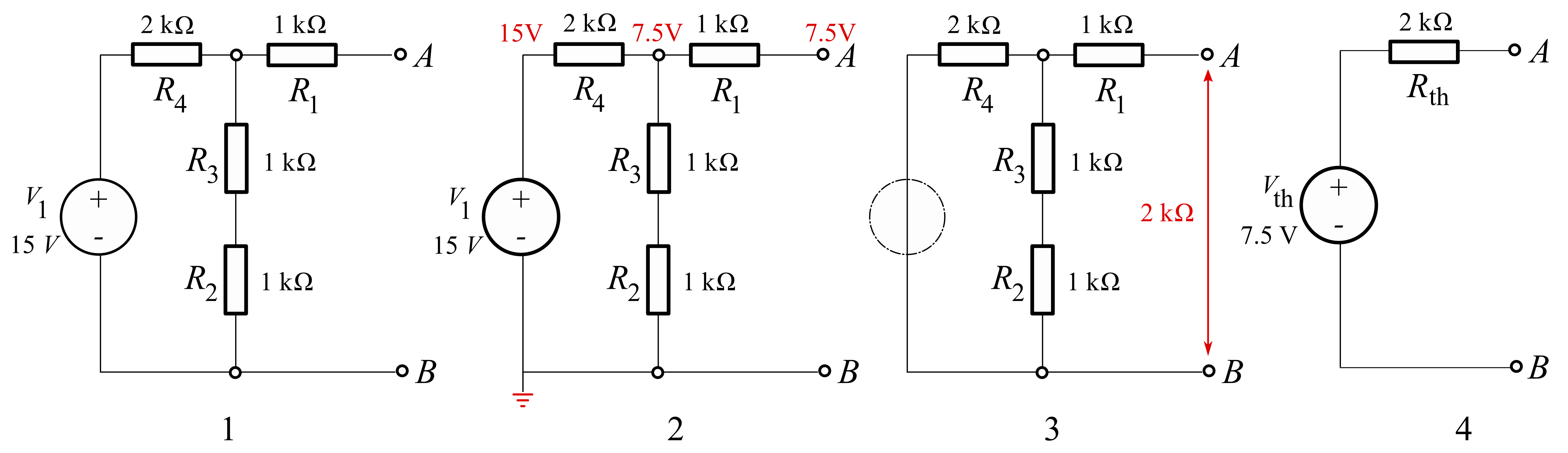 Thevenin theorem example